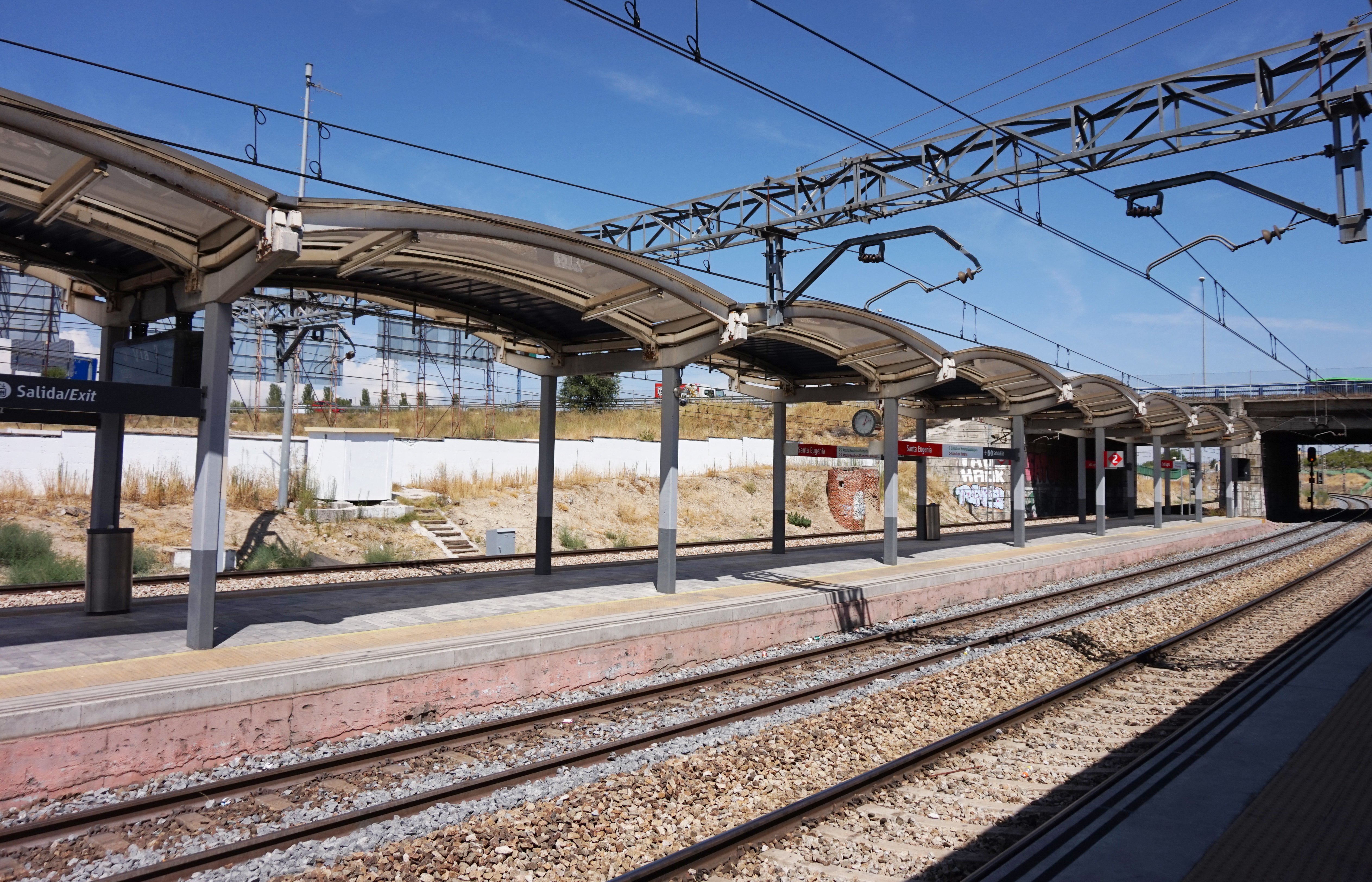 The train station Santa Eugenia in Madrid. This photograph was taken with a Sony Alpha a5000.